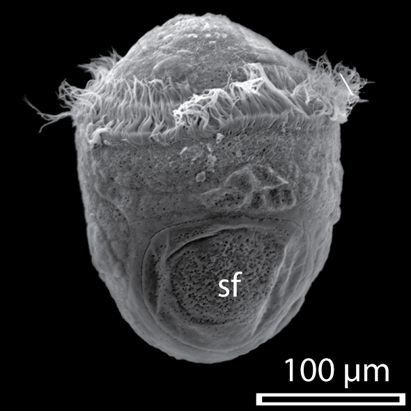 SEM image of trochophore of Haliotis asinina 9 hours post fertilisation. ps - shell field